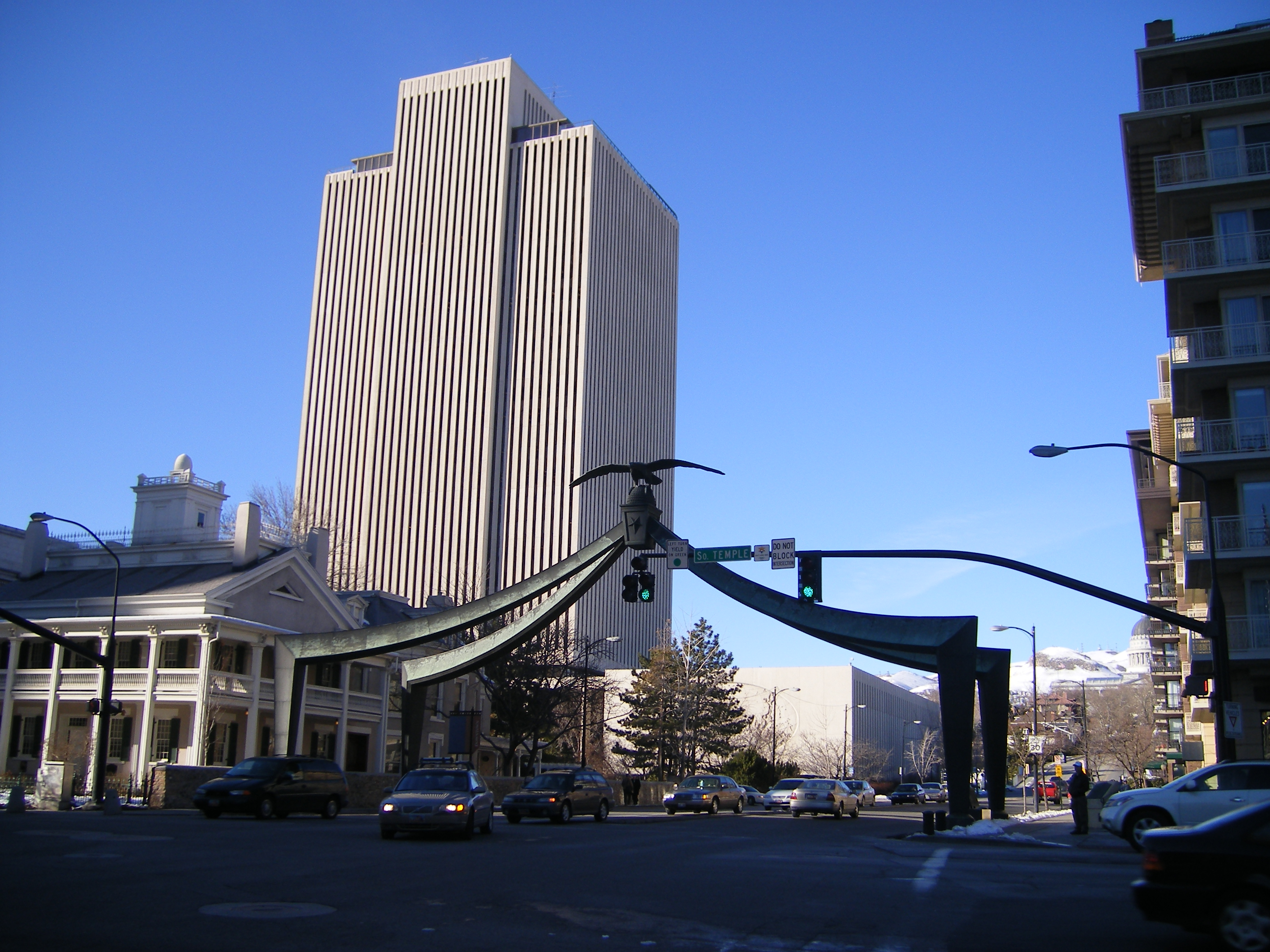 Photograph of intersection of South Temple and State Streets in downtown Salt Lake City showing the Beehive House, Eagle Gate, and The Church of Jesus Christ of Latter-day Saints Office Building.